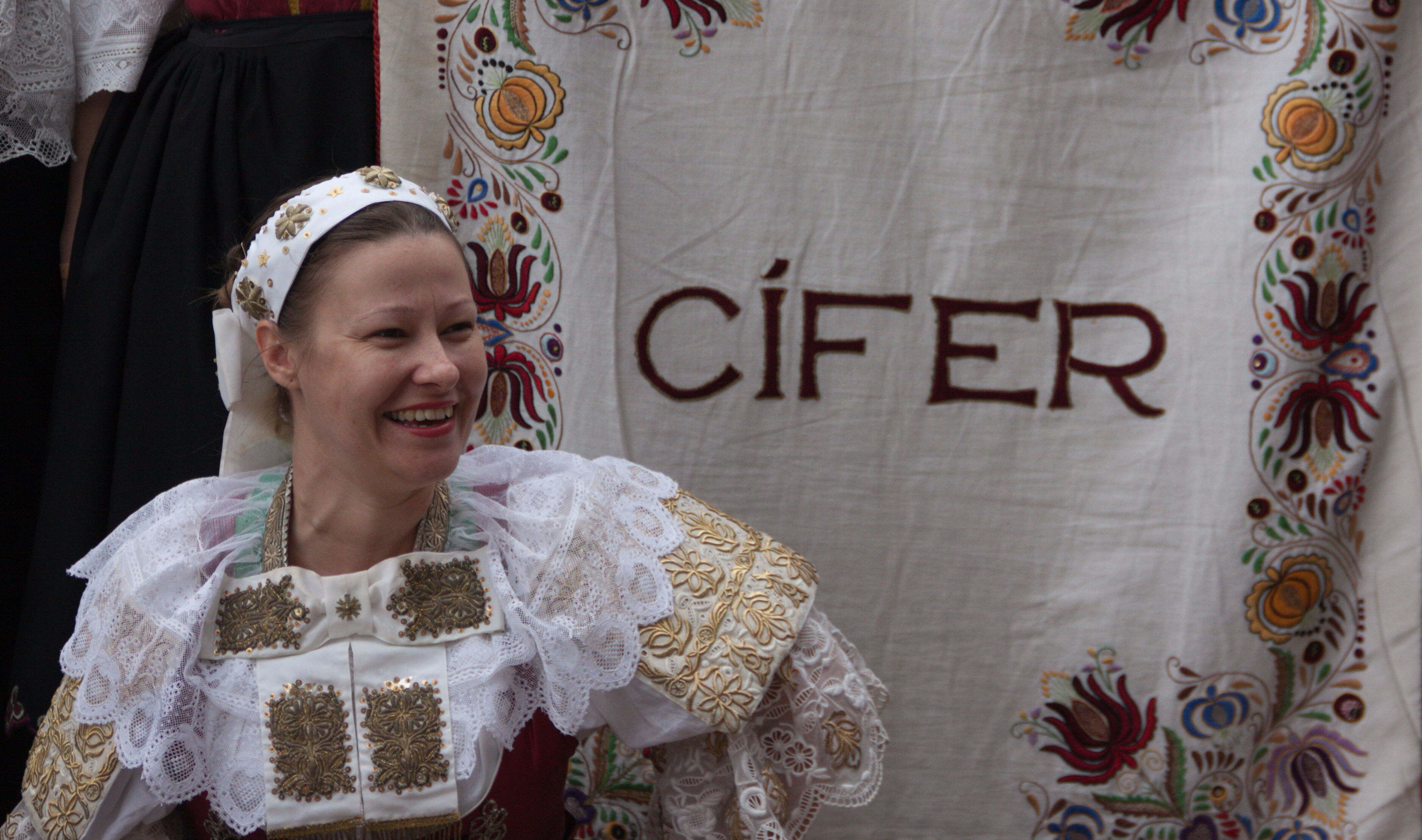 Woman`s folk costume from Cífer, Slovakia. Carpathian Ethnography Project, Slovakia, third day, Myjava Festival 2017. Photo quality will be improved later.